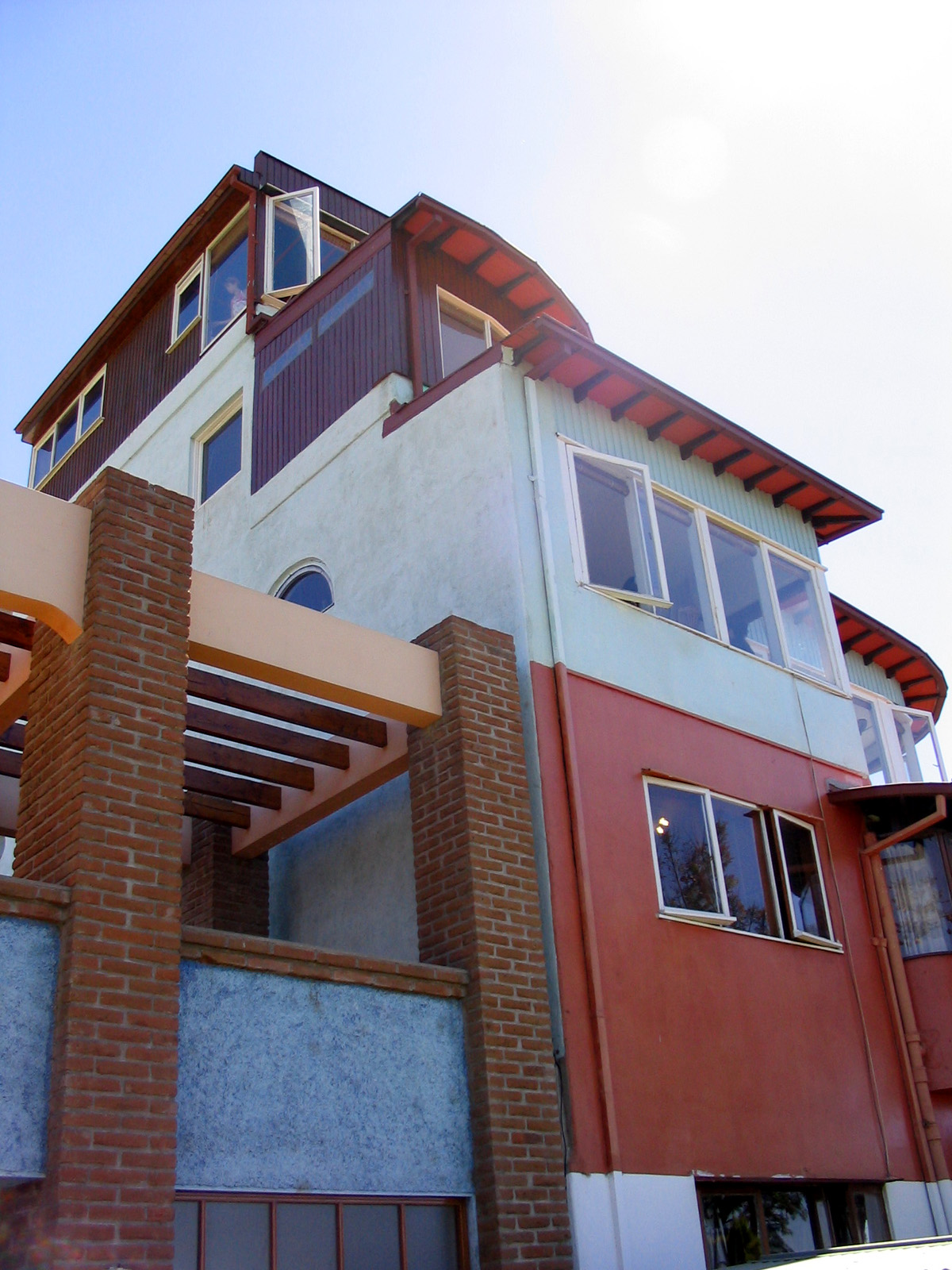 La Sebastiana, Pablo Neruda's house in Valparaíso, Chile.